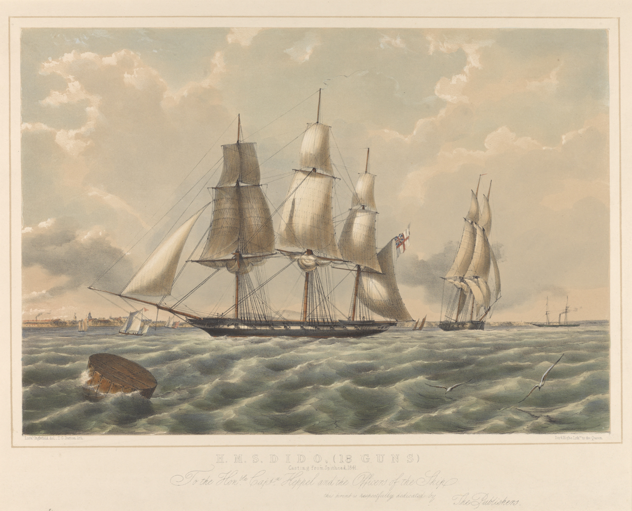 H.M.S. Dido, (18 guns) casting from Spithead 1841... Hand-coloured.